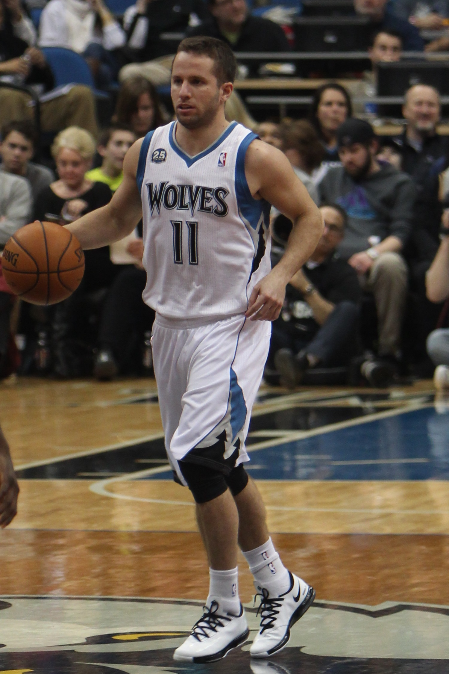 José Juan Barea at the Target Center